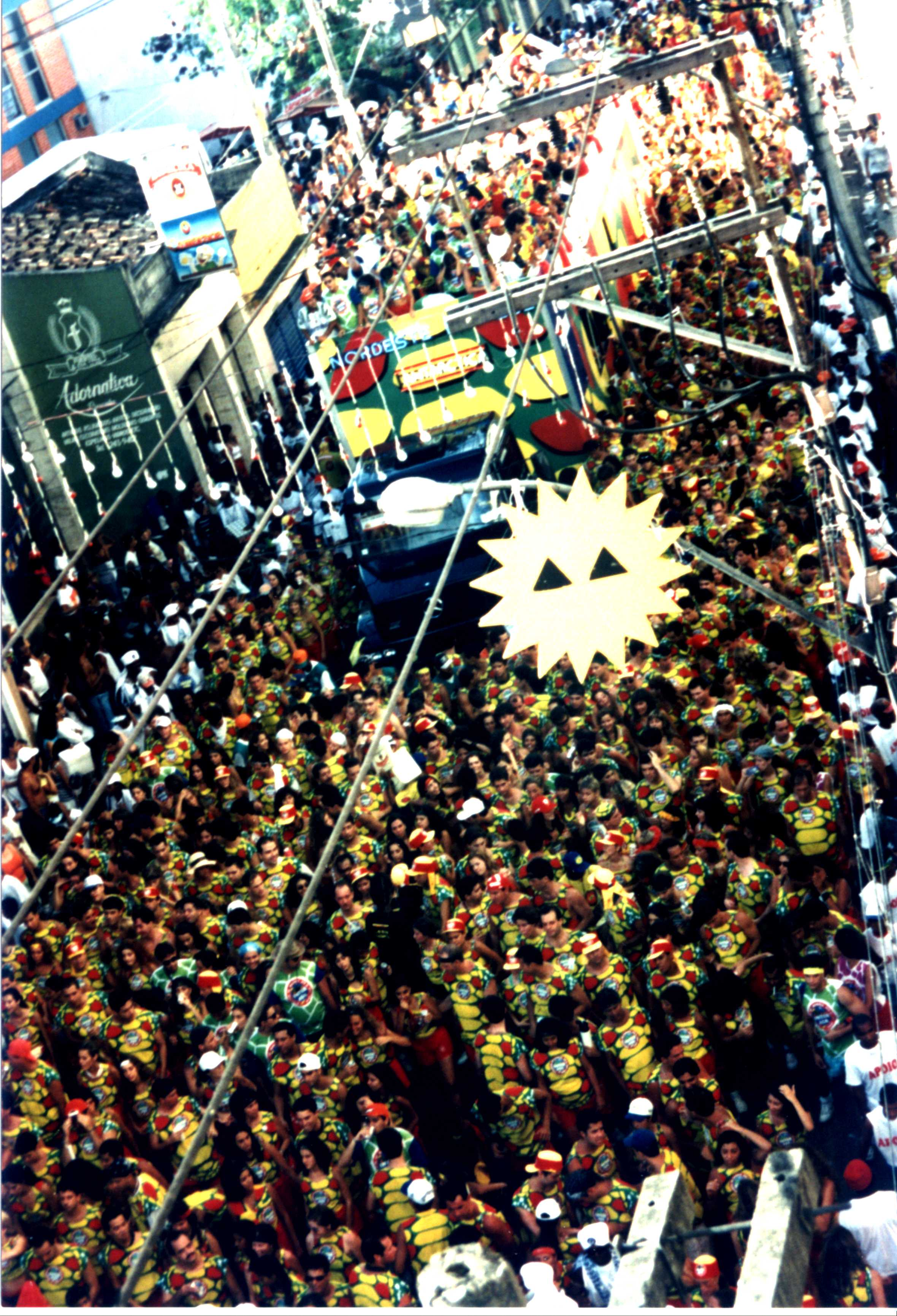 Carnival in Sa;vador, Bahia - 1997